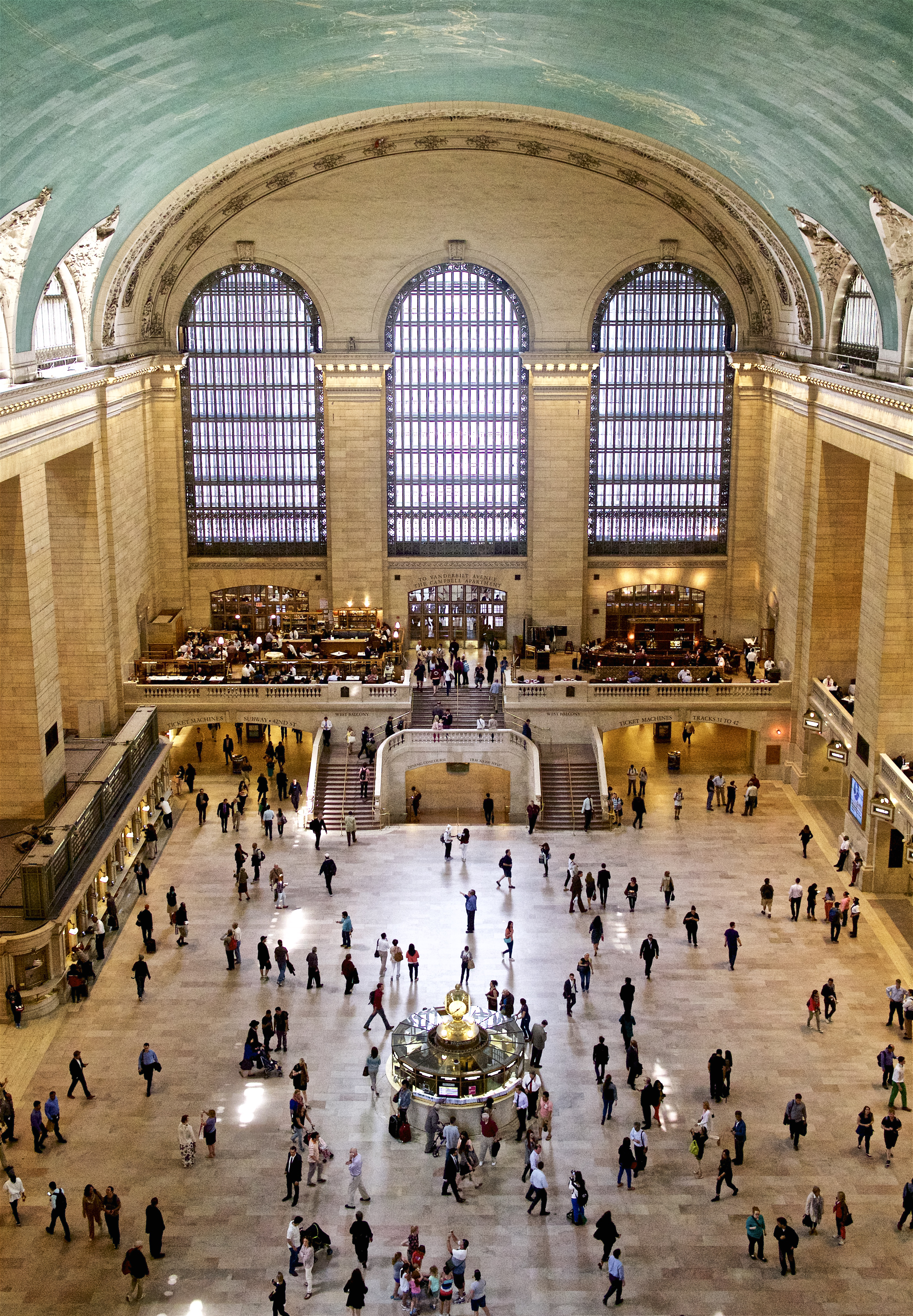 The Main Concourse of Grand Central Terminal, as seen on a weekday afternoon, May 2014.